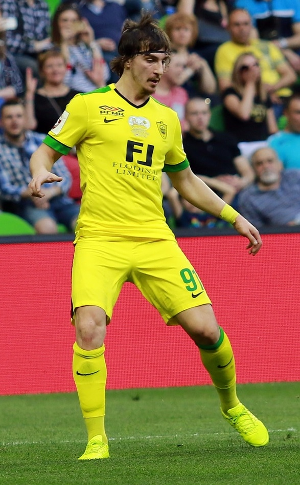 Pavel Yakovlev with FC Anzhi Makhachkala in a game against FC Krasnodar.